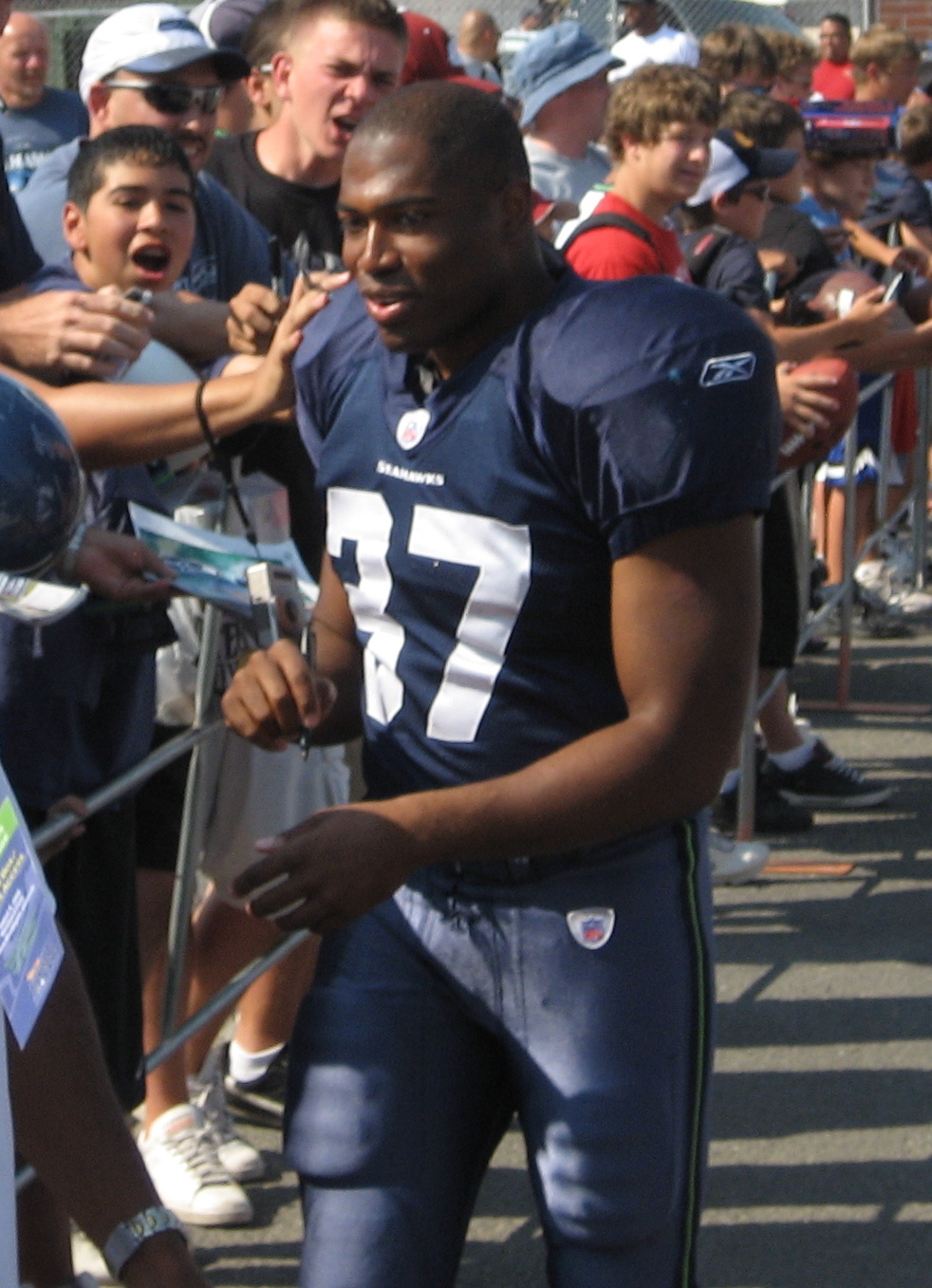 Picture of Seahawks players walking a gauntlet of fans at Eastern Washington University, Cheney Washington, following the team scrimmage. Unidentified coach and Shaun Alexander.